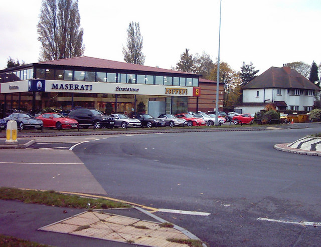 Upmarket Motor Dealer on A452 Nr Little Aston